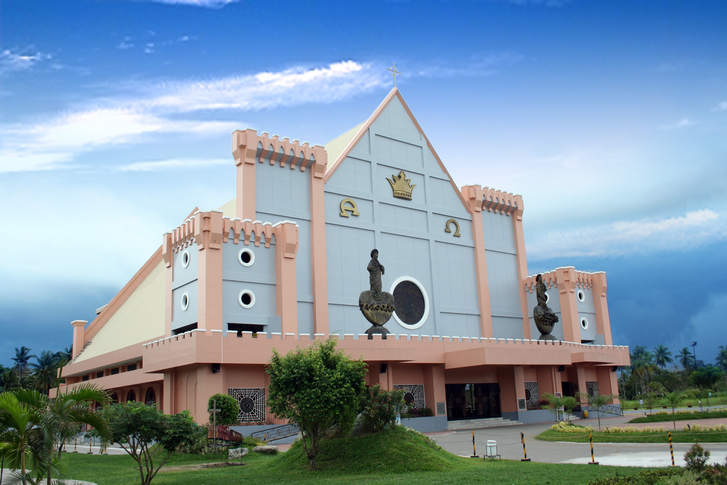 The new Christ The King Cathedral in Magugpo South, Tagum City